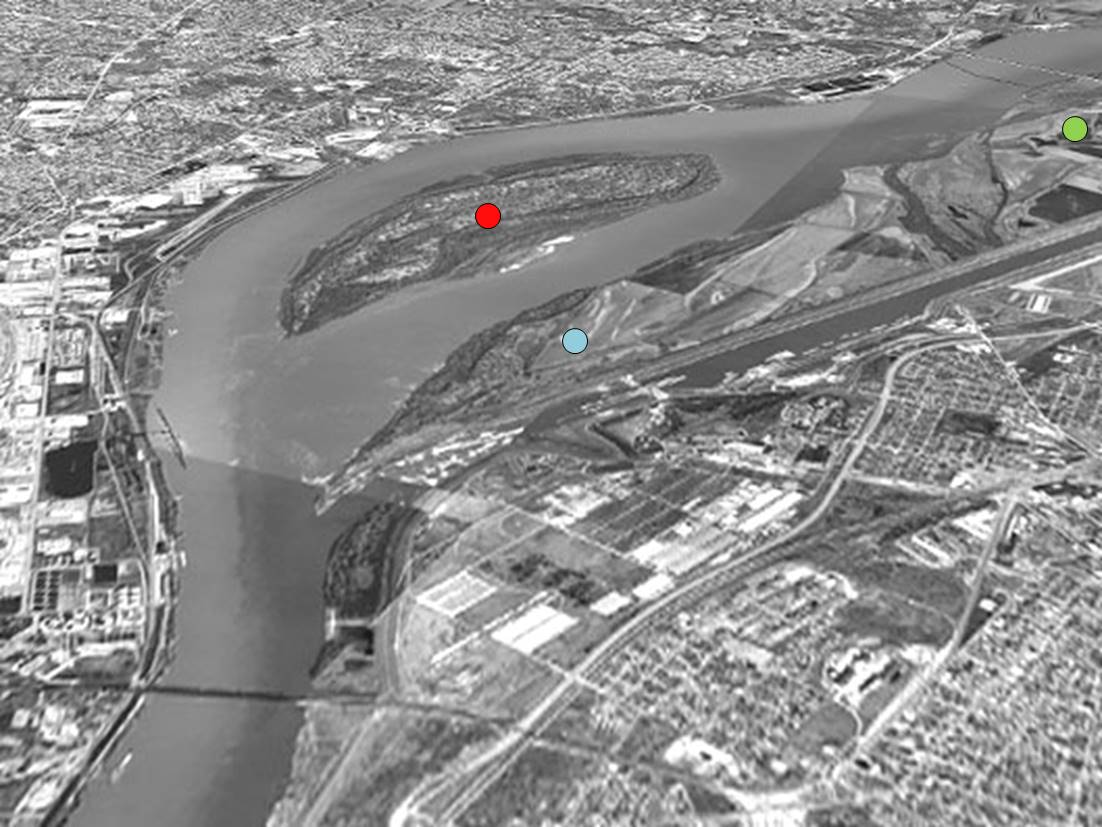 Derived from File:M I SS I SS I PP I.jpg by Peter Kaminski. Red dot indicates Mosenthein Island. Blue dot indicates Gabaret Island. Green dot indicates Chouteau Island.